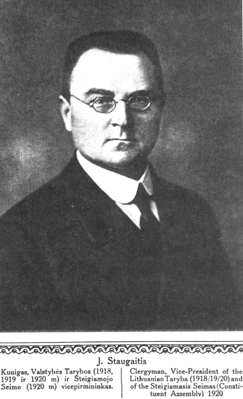 Justinas Staugaitis, clergyman, bishop, member of Constituent Assembly of Lithuania and Lithuanian Seimas